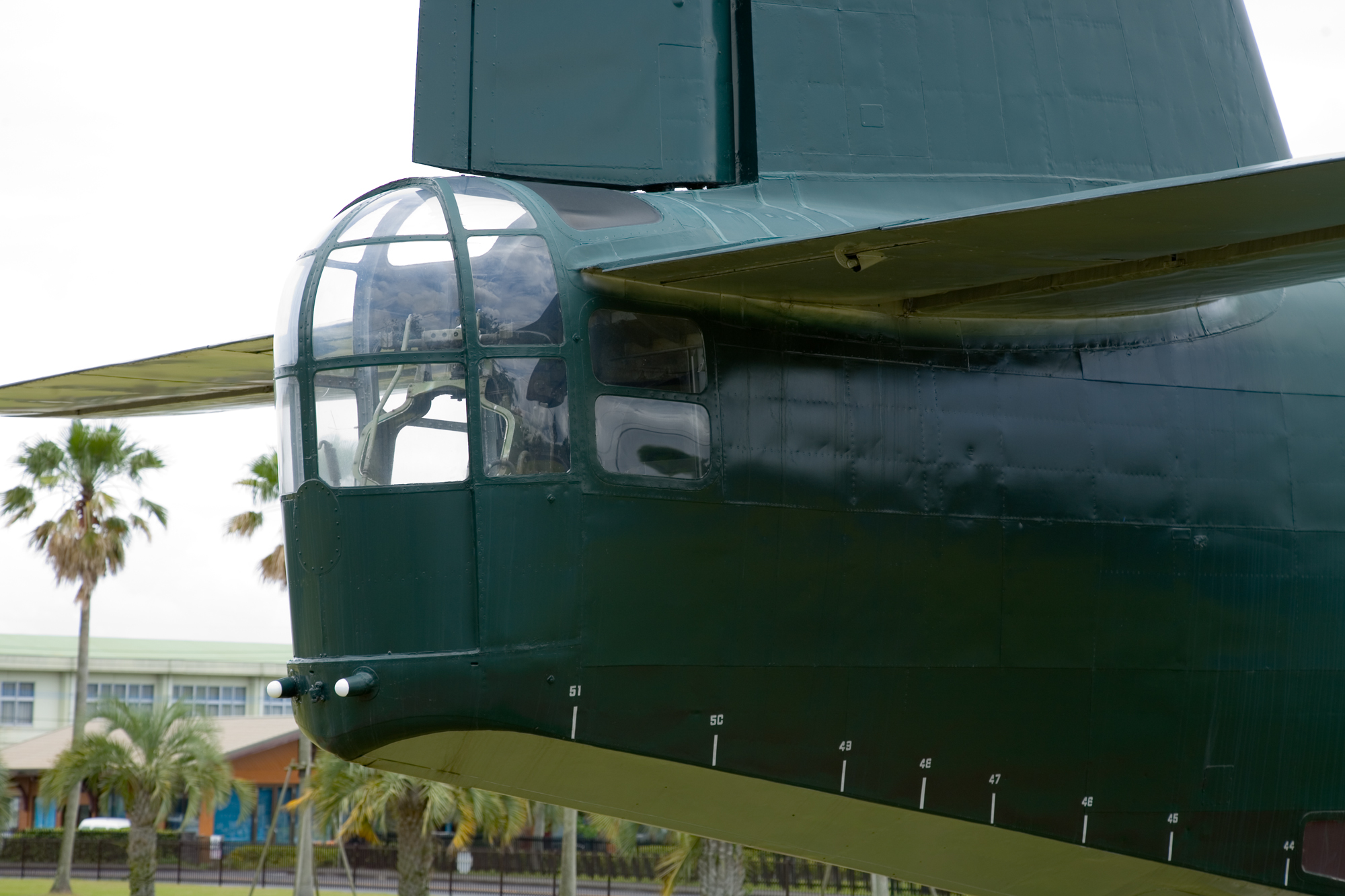 Detail of the tail gunner position of a Kawanishi H8K2 Type 2 flying boat at Kanoya Museum in Japan. It was codenamed Emily by allied force. This example is manufacture 426.